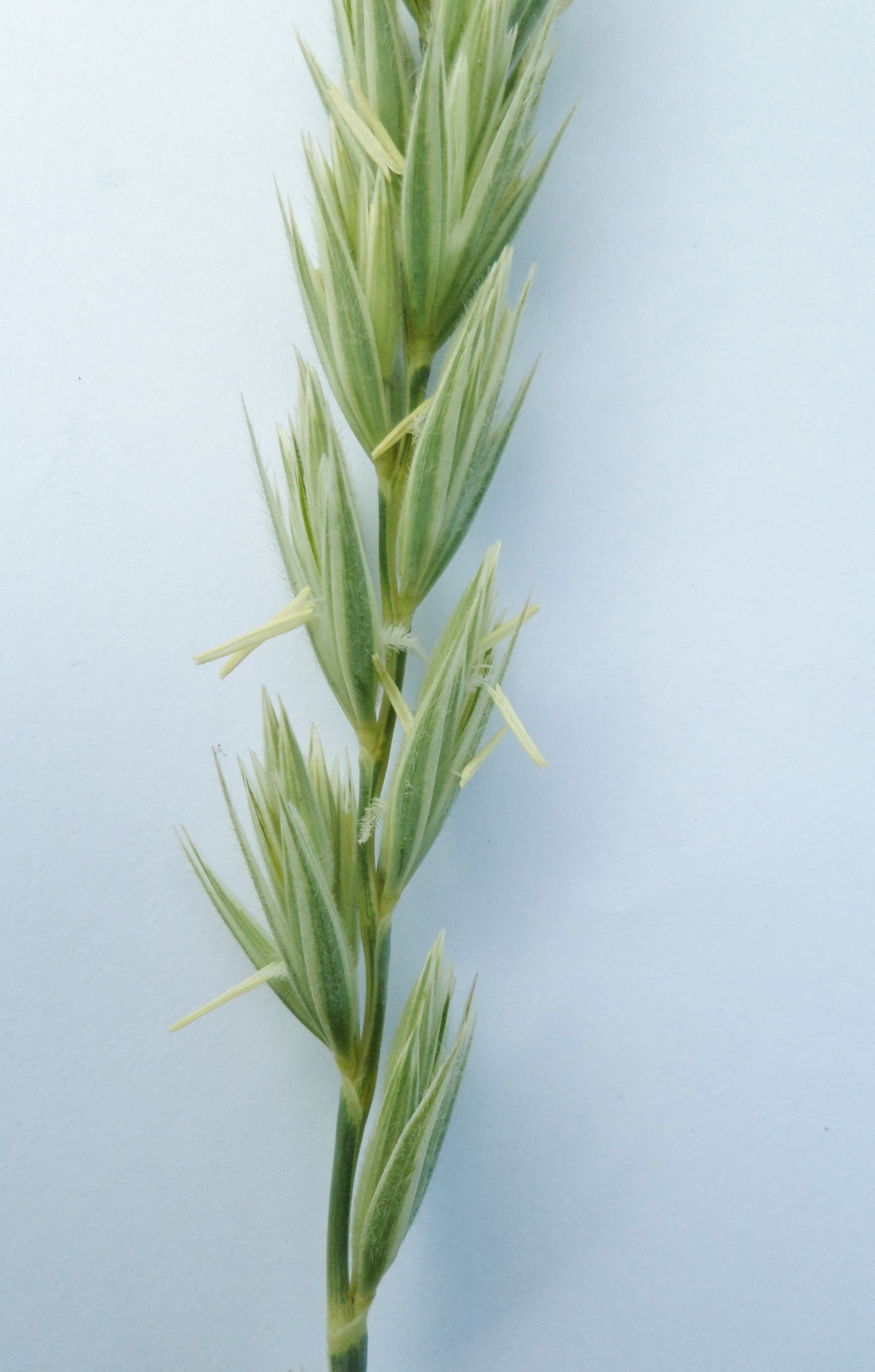 Leymus arenarius with details of the flower and stamens, Ardrossan, North Ayrshire, Scotland.